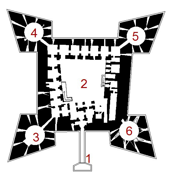 Plan of Castle of Barletta in Puglia - Italy